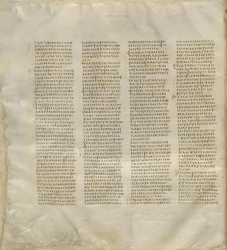 page of the codex with text Matthew 2:5-3:7